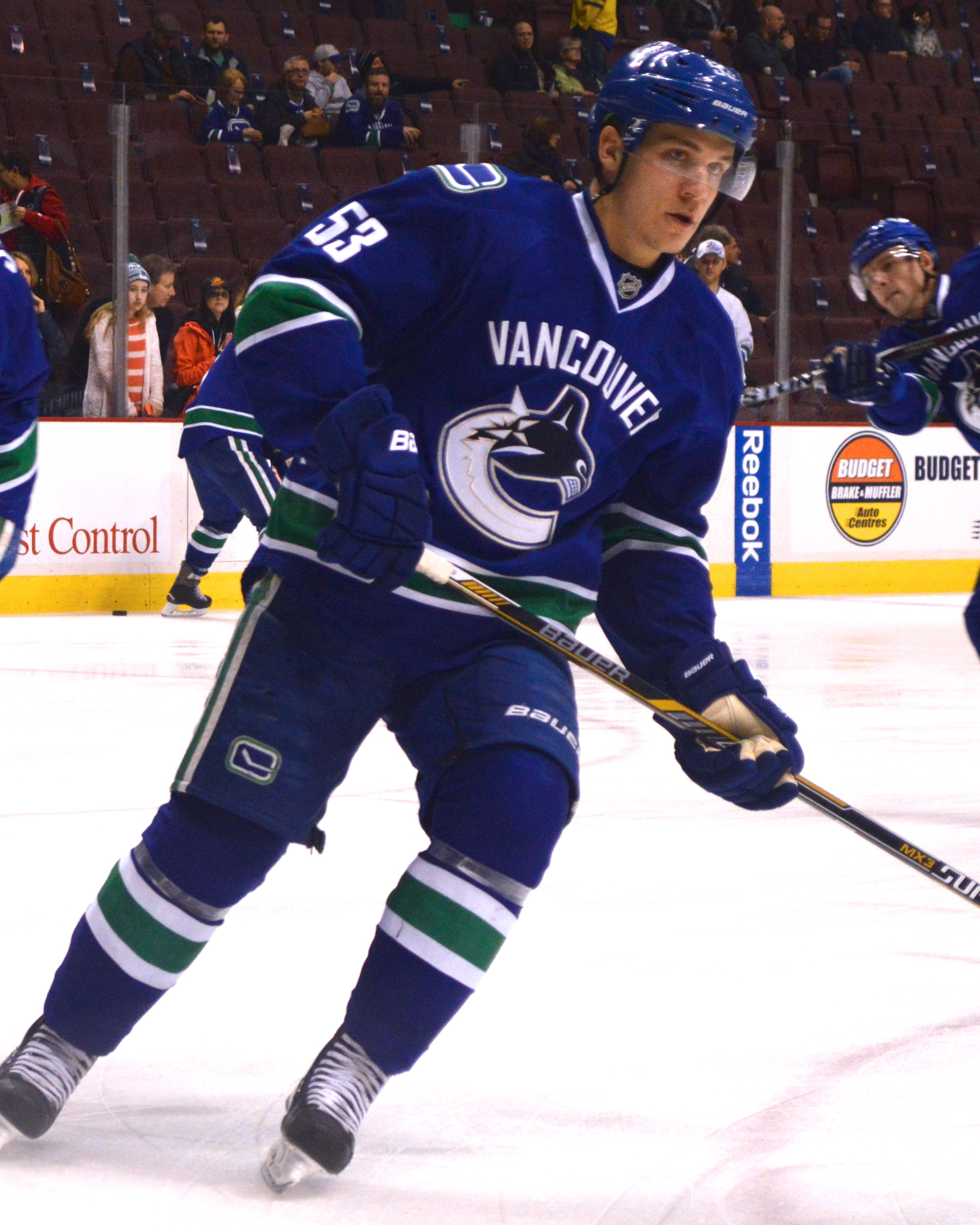 Vancouver Canucks forward Bo Horvat during warm-up prior to a game against the Winnipeg Jets at Rogers Arena on February 3, 2015.